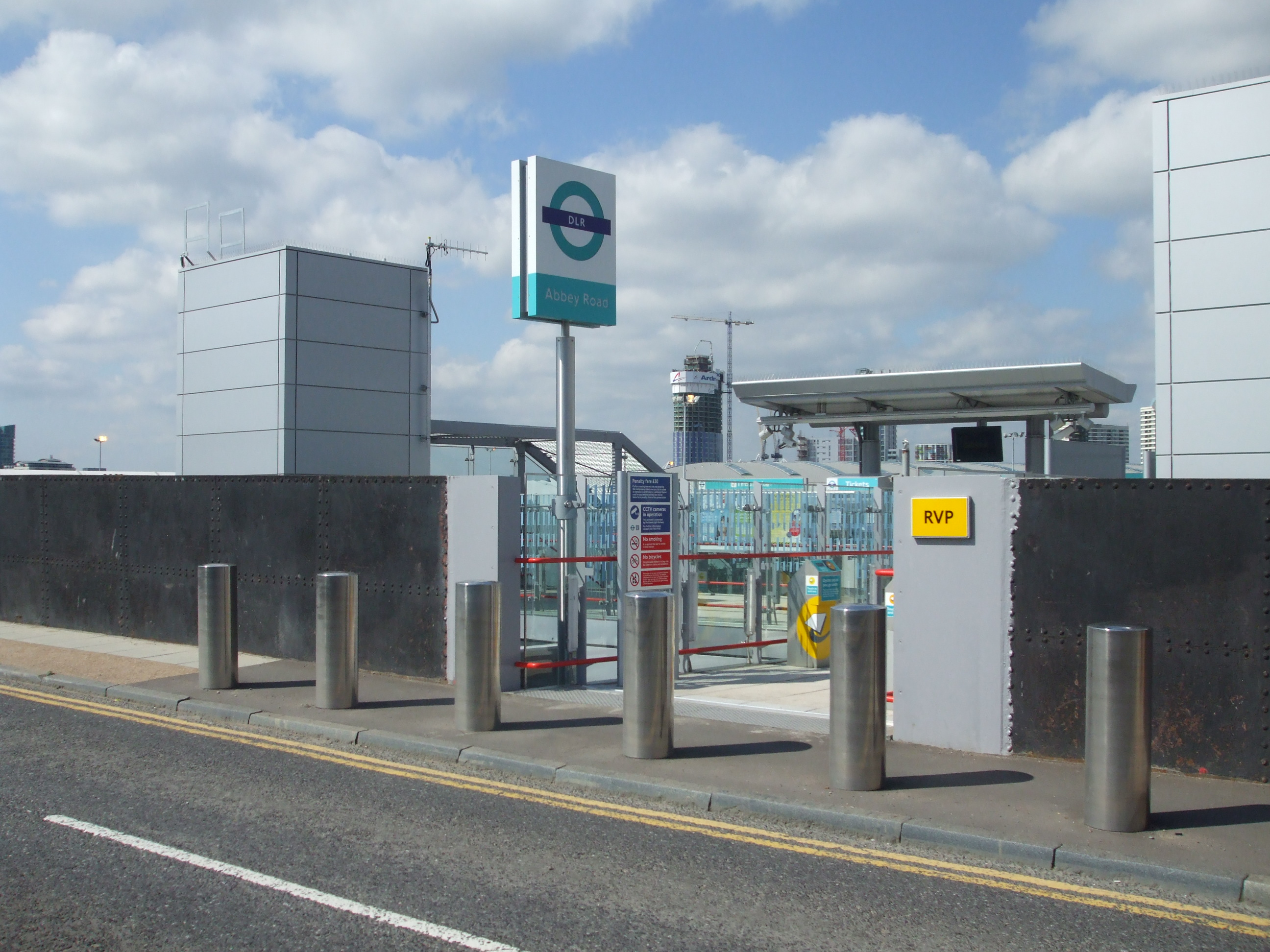 Abbey Road DLR station south entrance, on Abbey Road itself, soon after opening